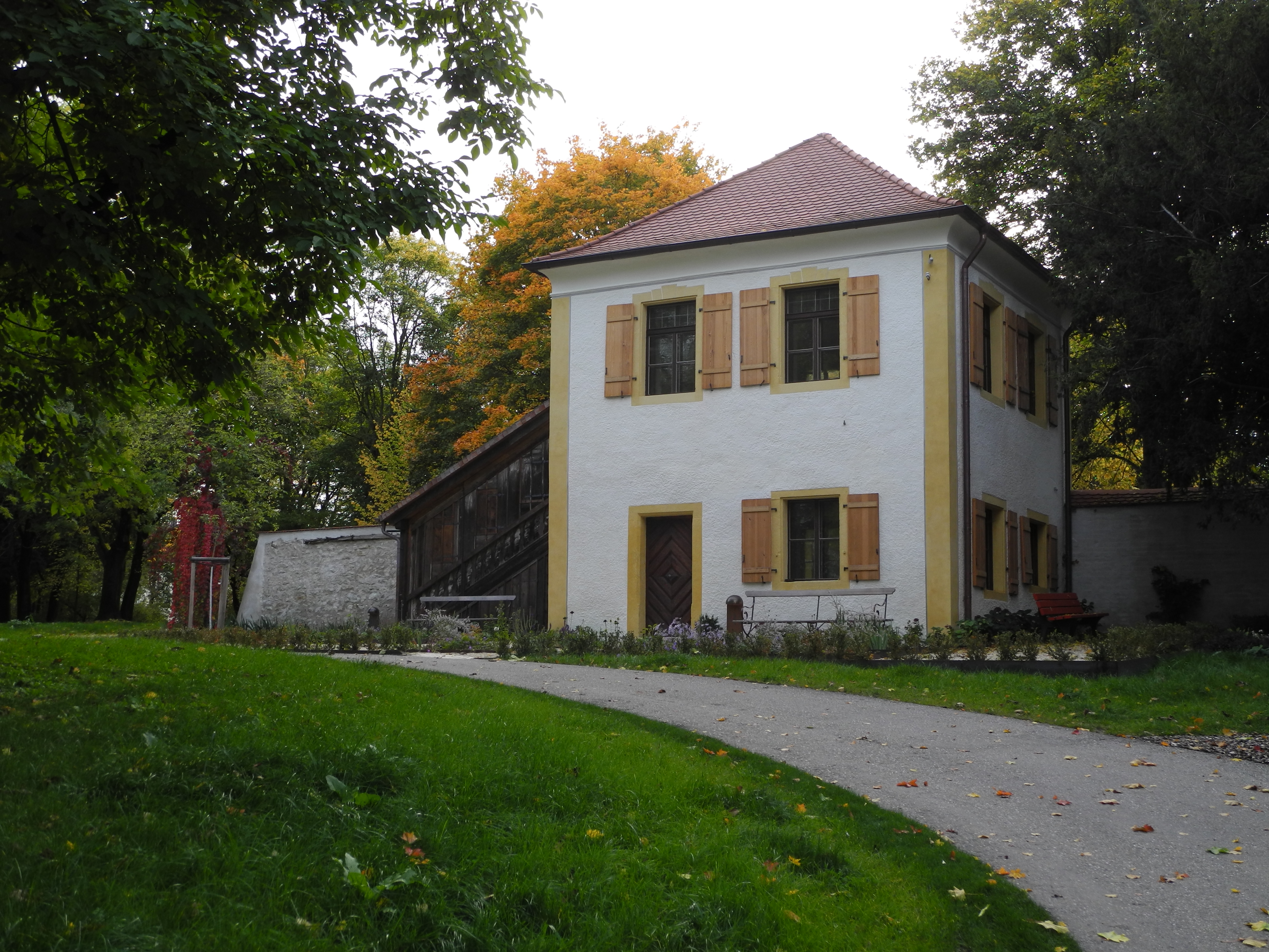 Salettl Regensburg Germany